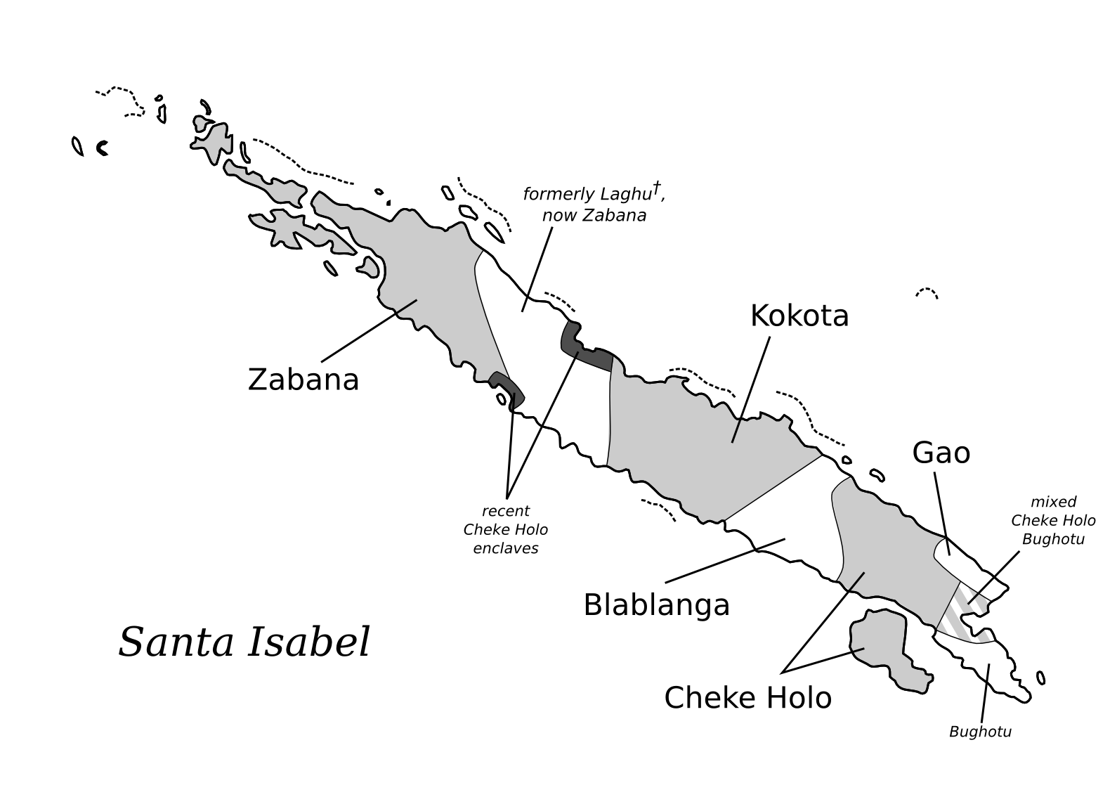 Map showing the languages of Santa Isabel. Data from: Palmer, Bill. 1999. A grammar of the Kokota language, Santa Isabel, Solomon Islands. University of Sydney. Dissertation.